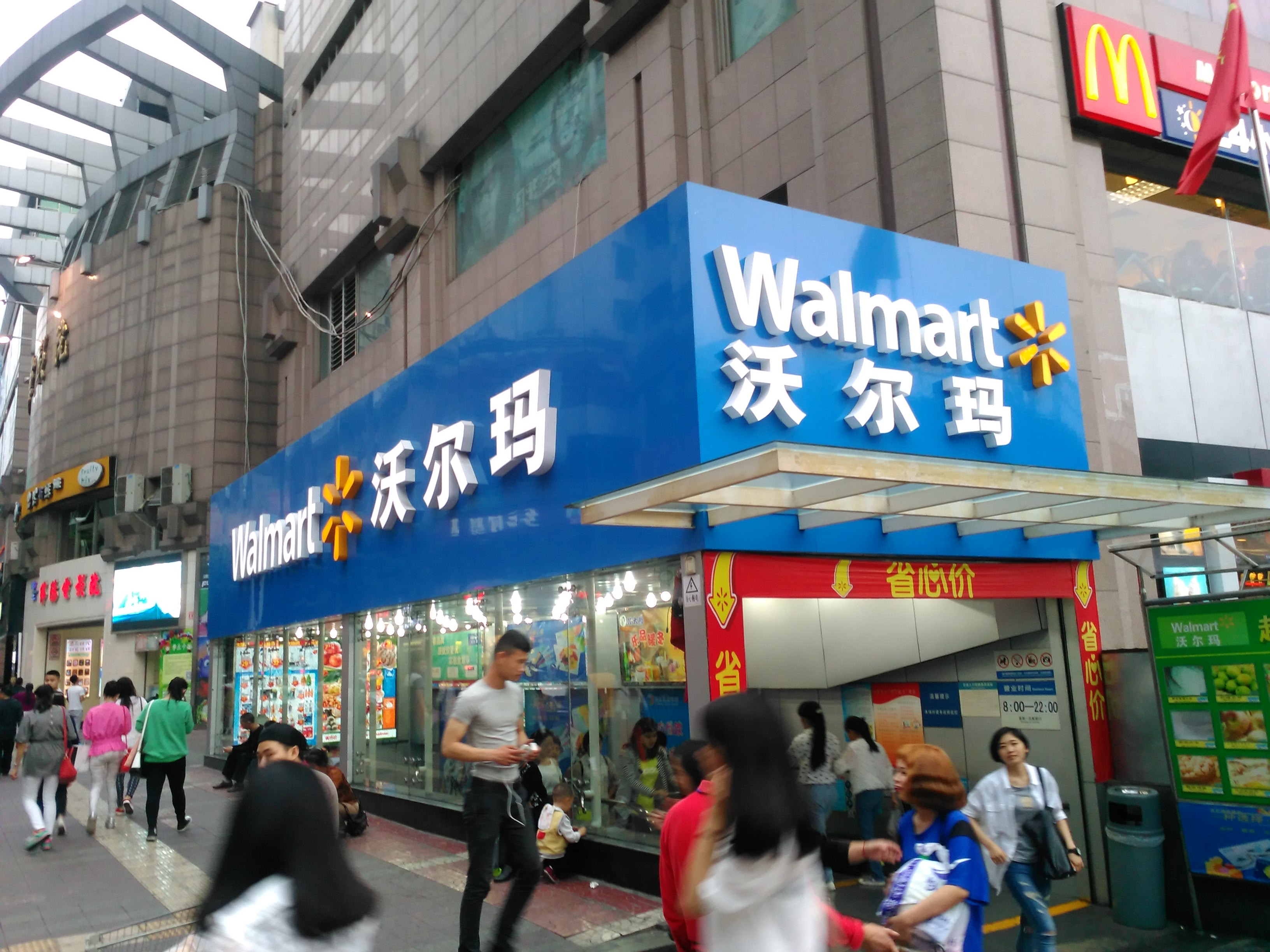 Walmart in Mianyang